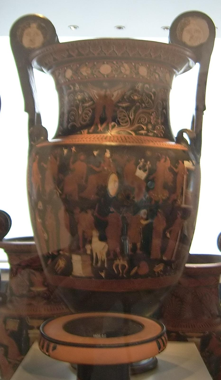 Phrixos Krater, attributed to the Dareios painter, apulian Krater around 340 B.C., A-Side